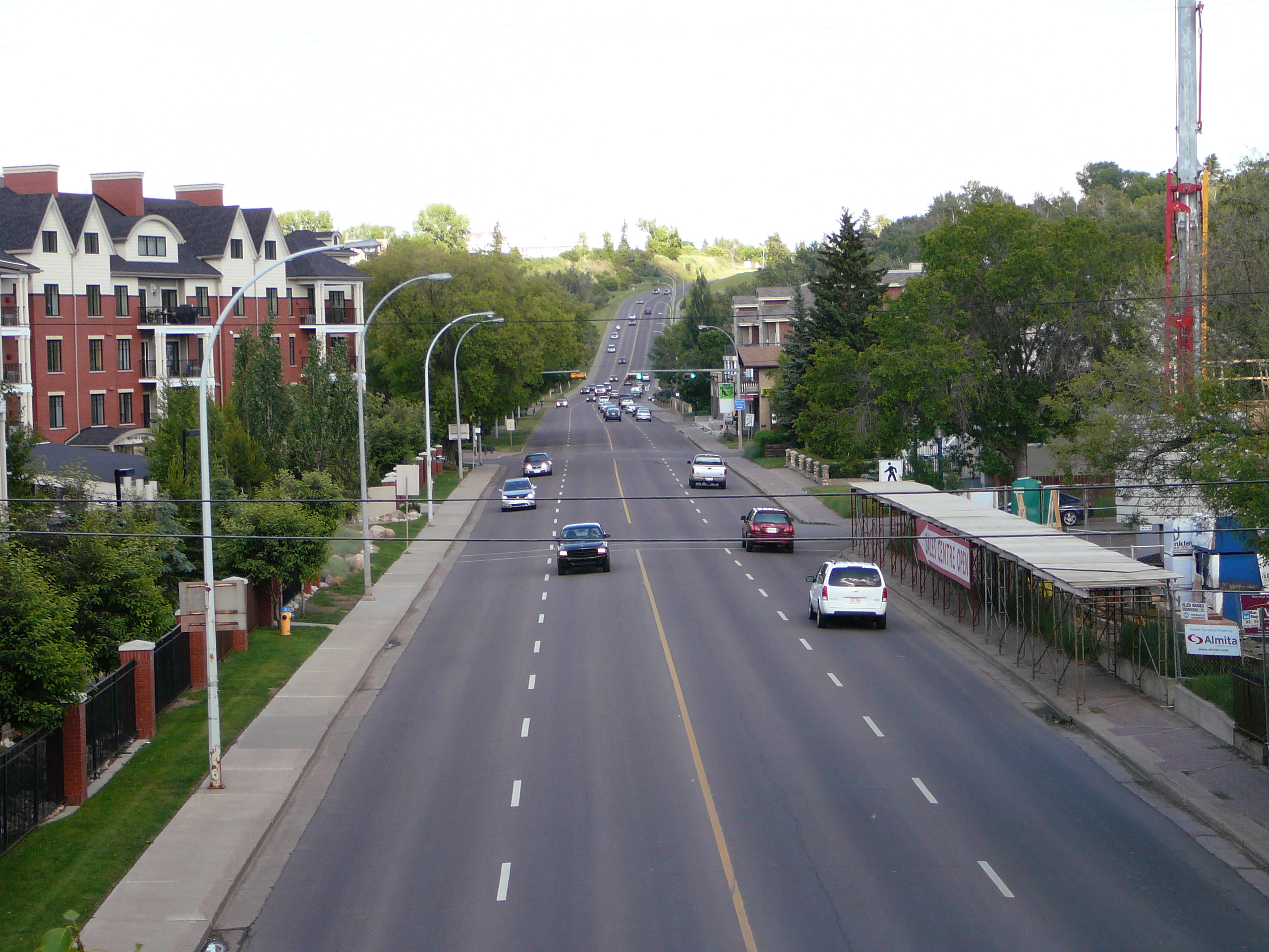 Picture of 98 Avenue in the Edmonton neighbourhood of Cloverdale